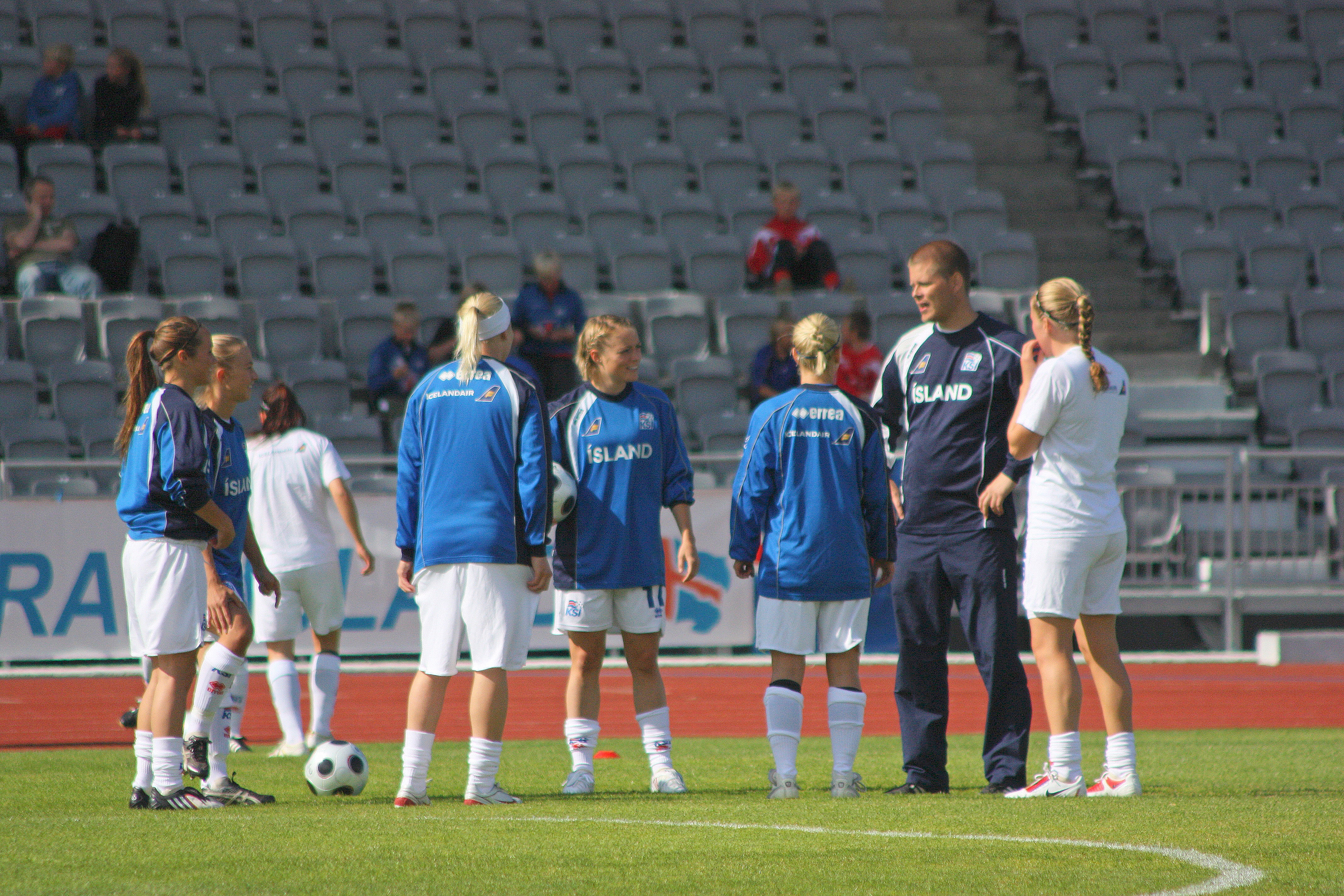 Iceland - Serbia/2011 FIFA Women's World Cup qualification UEFA Group 1